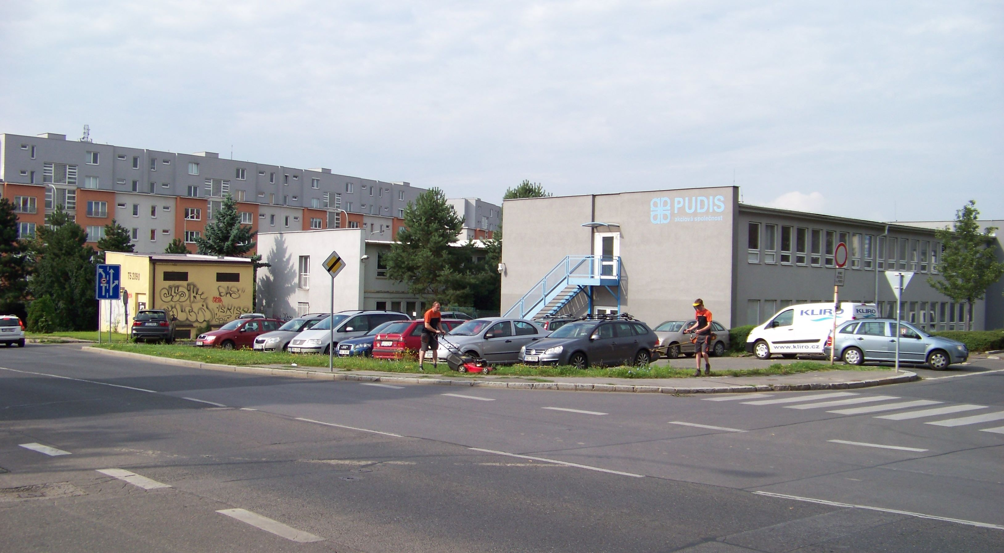 Prague-Strašnice, the Czech Republic. Na palouku street, office buildings between Nad vodovodem and Počernická street.